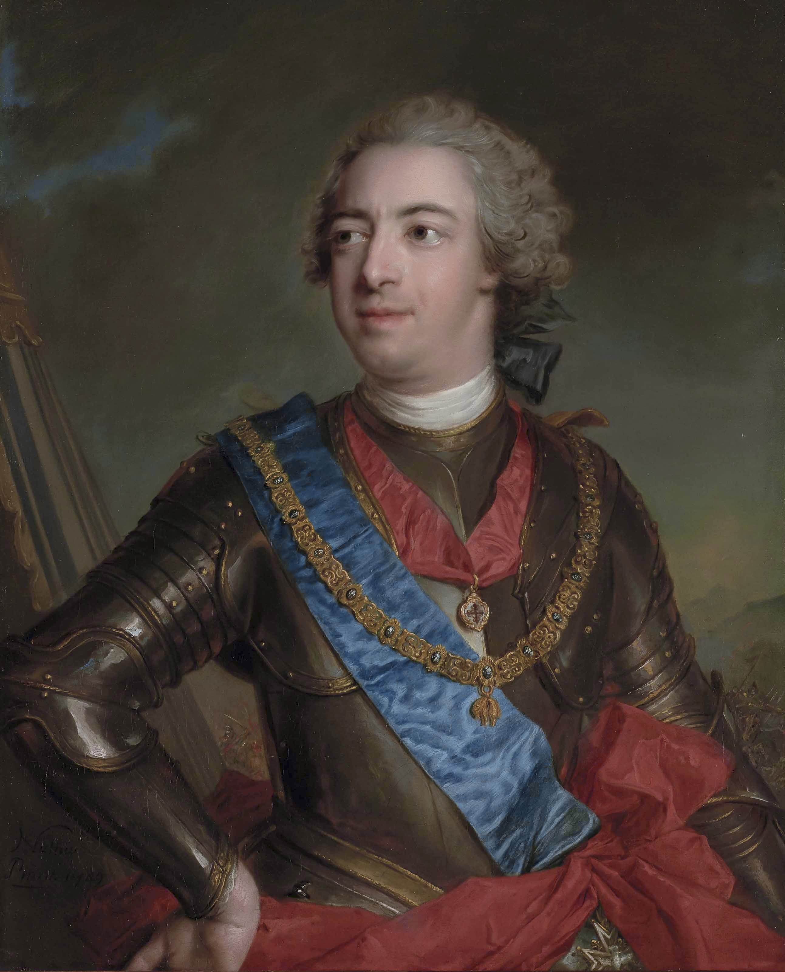 Fernando de Silva y Alvarez of Toledo, 12th Duke of Alba and Duke of Huescar (1714-1776)